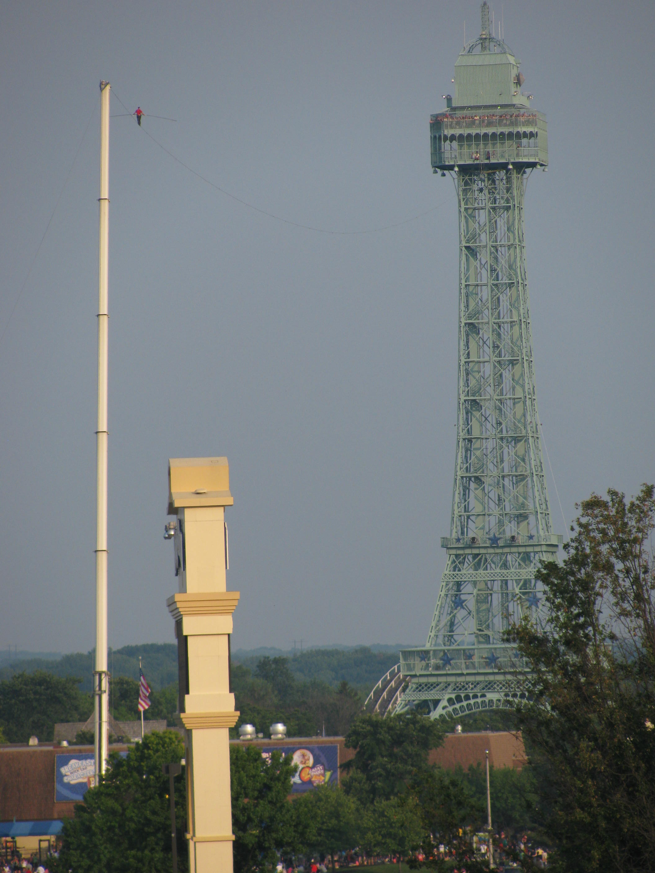 Nik Wallenda beginning the highwire walk at King's Island August 15, 2009